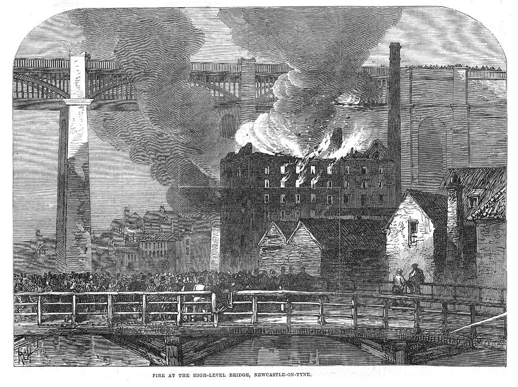 Engraving of the High Level Bridge, Newcastle, England, during a fire on 24 June 1866. It was made by a contracted engraver for the Illustrated London News and published in that periodical